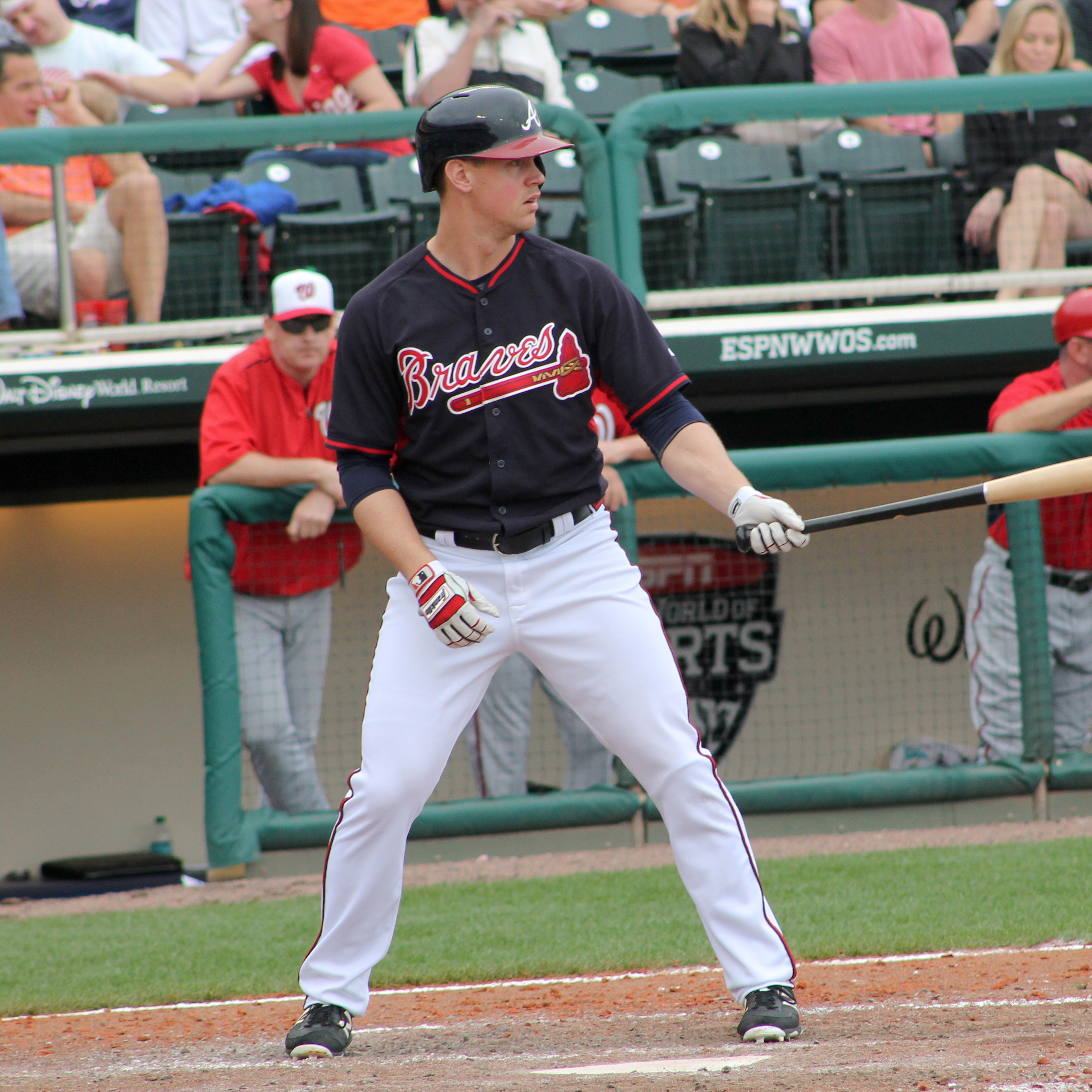 Professional baseball player Todd Cunningham at spring training in March 2015.